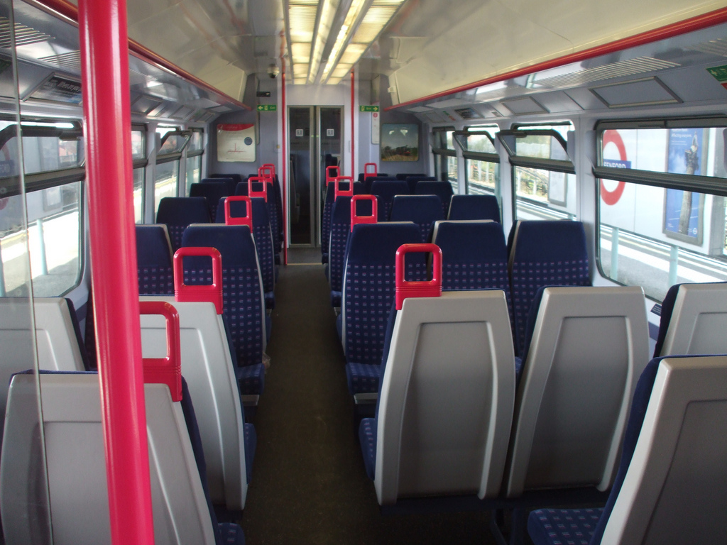 refurbished class 165